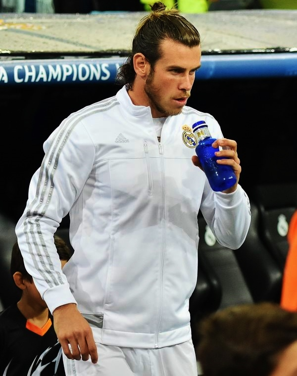 Gareth Bale